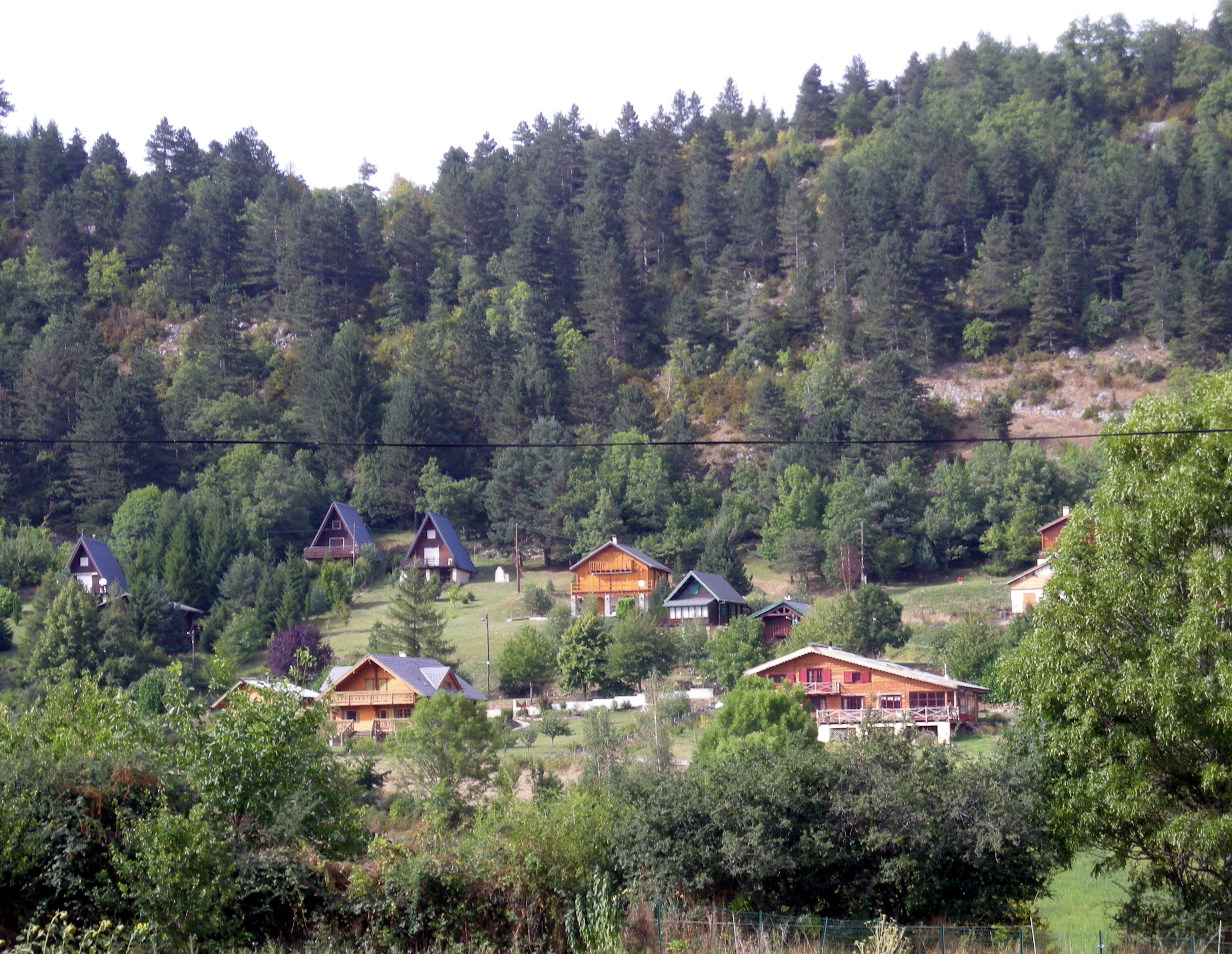 Belcaire (Aude)